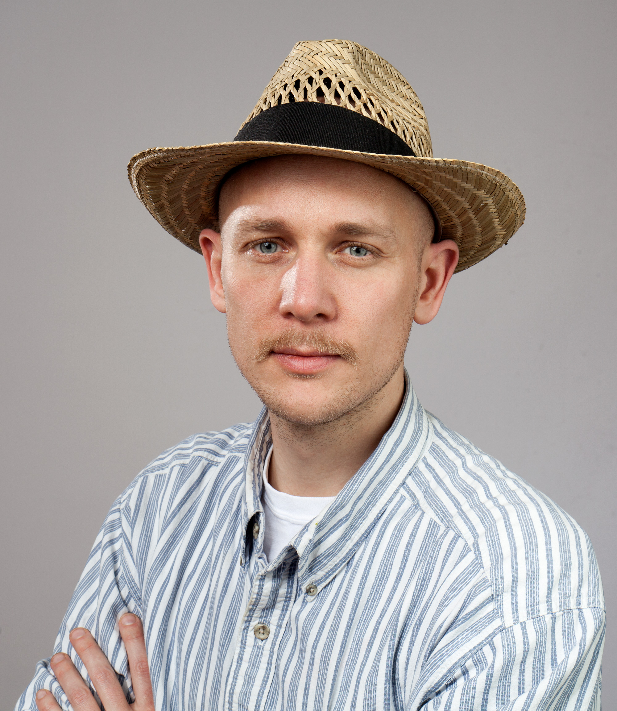 Self portrait of Jonas Lund with a hat, November 2018